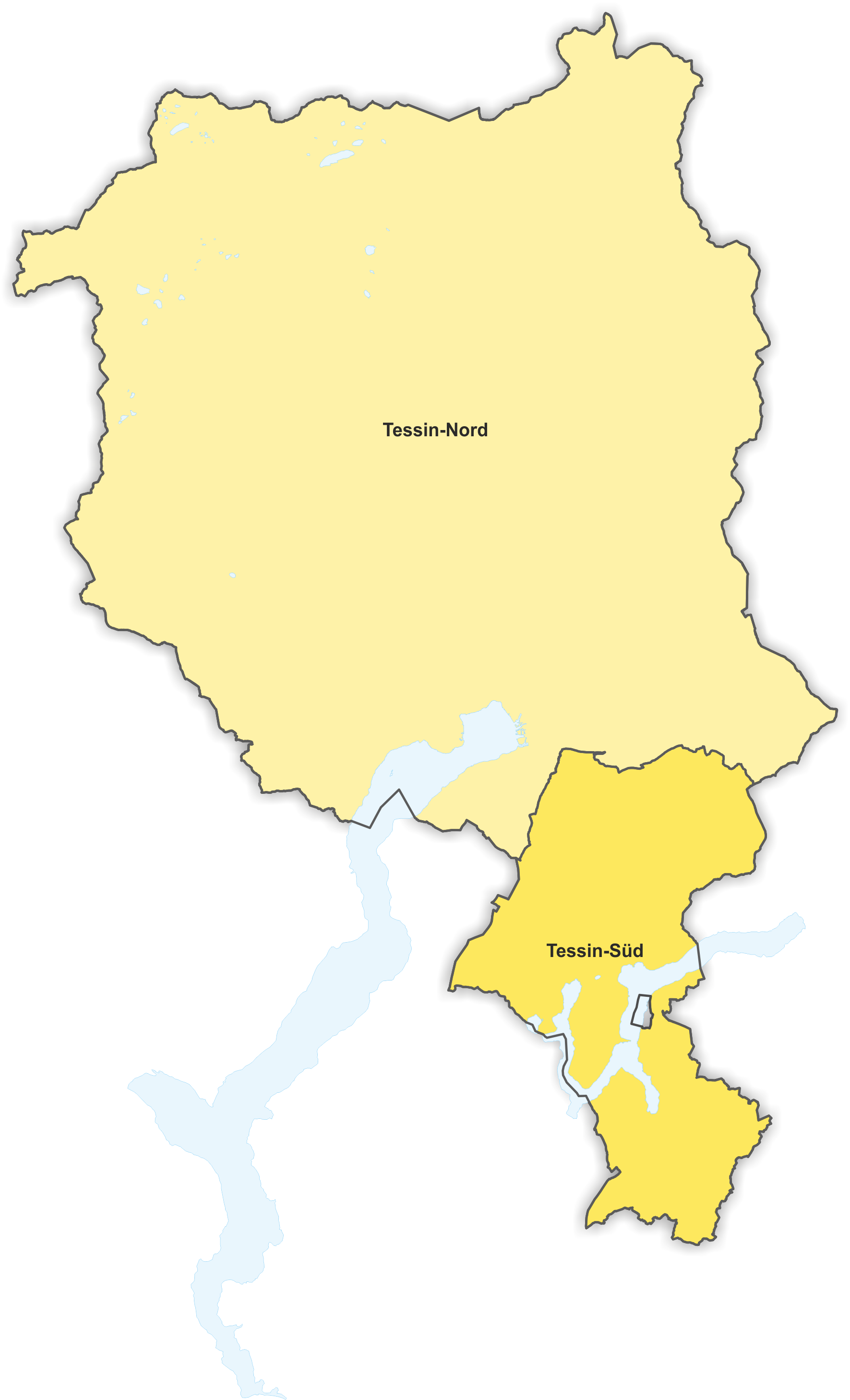 National council constituencies in the canton of Ticino from 1902 to 1908